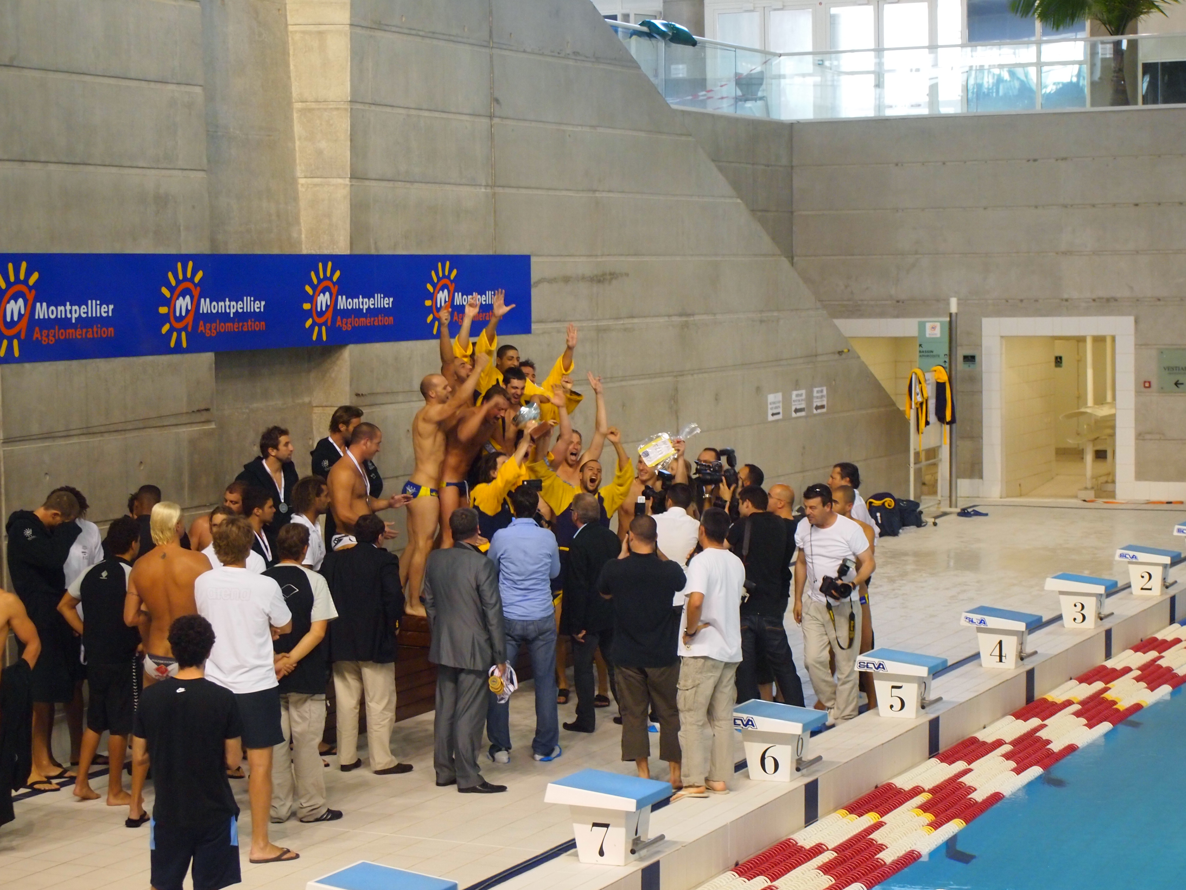 Cercle des nageurs de Marseille's water polo team received the France Elite 2010-2011 Championship's Trophy after final victory against Montpellier Water-Polo.